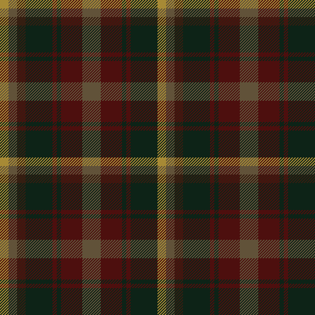 A digital depiction of the maple leaf tartan, a national symbol of Canada. Thread count: 38 dark green, 6 dark red, 6 dark green, 30 dark red, 26 light brown, 30 dark red, 6 dark green, 6 dark red, 38 dark green, 12 gold, 12 light brown, 12 dark brown